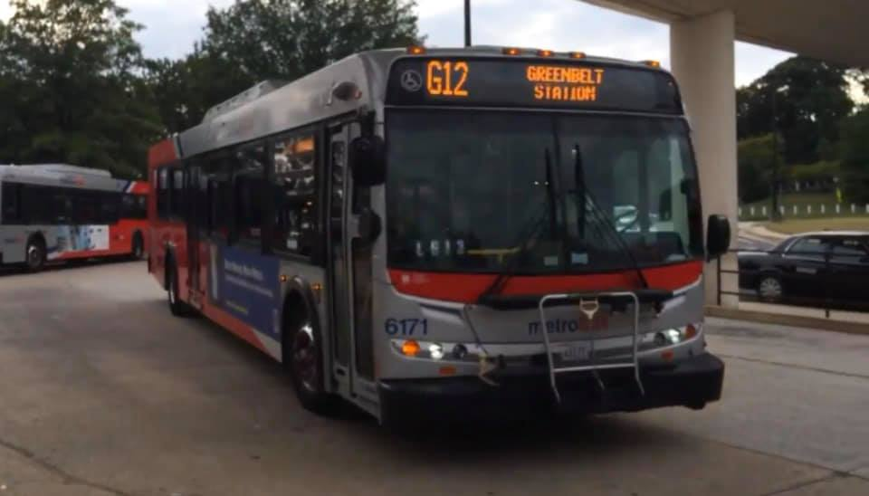 WMATA New Flyer D40LFR 6171 on G12, yea ik the title is wrong